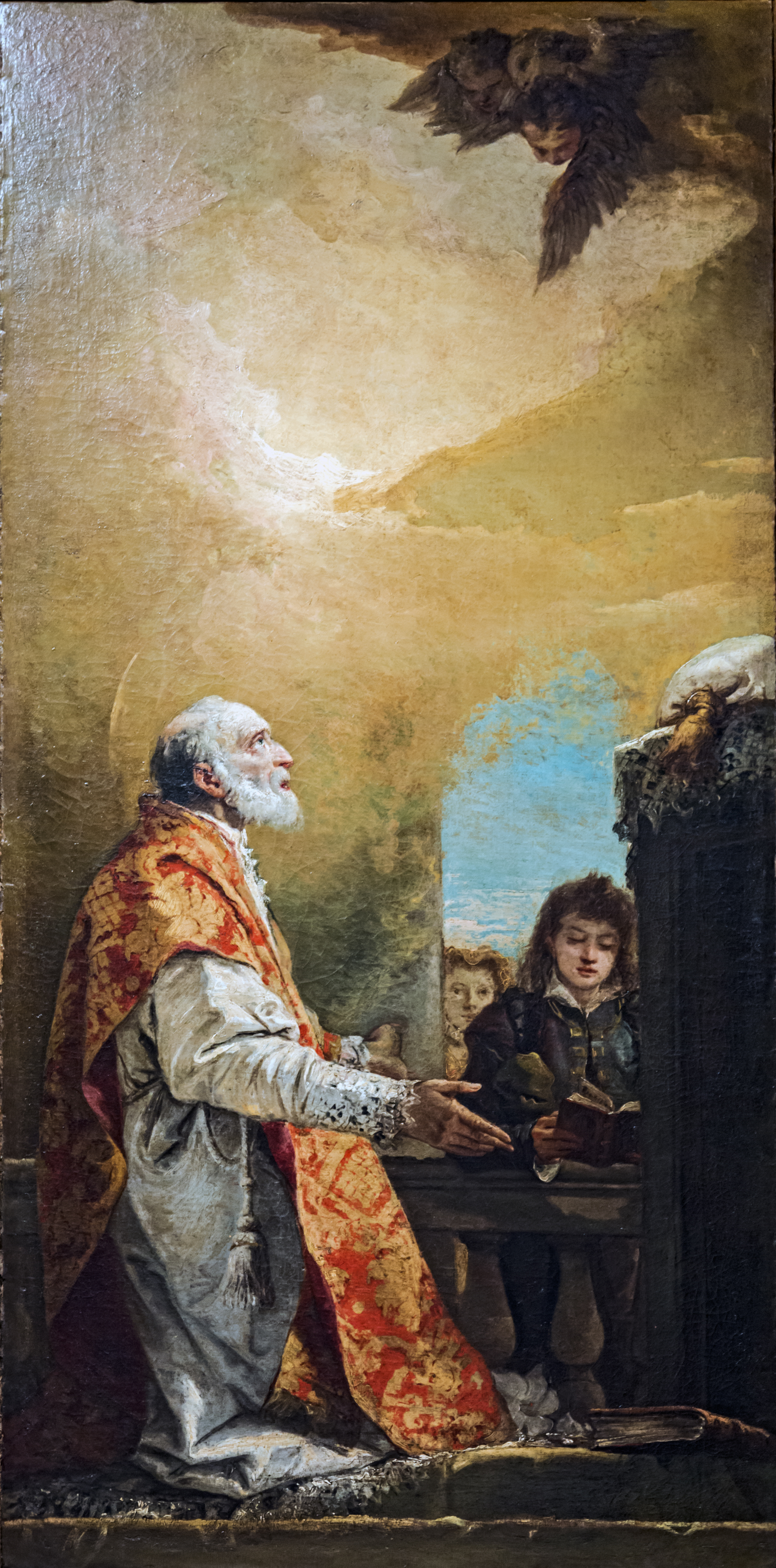 San Polo (church) - Oratory of the Crucifix St. Philip Neri by Giandomenico Tiepolo. Oil on canvas (1745 -1749).